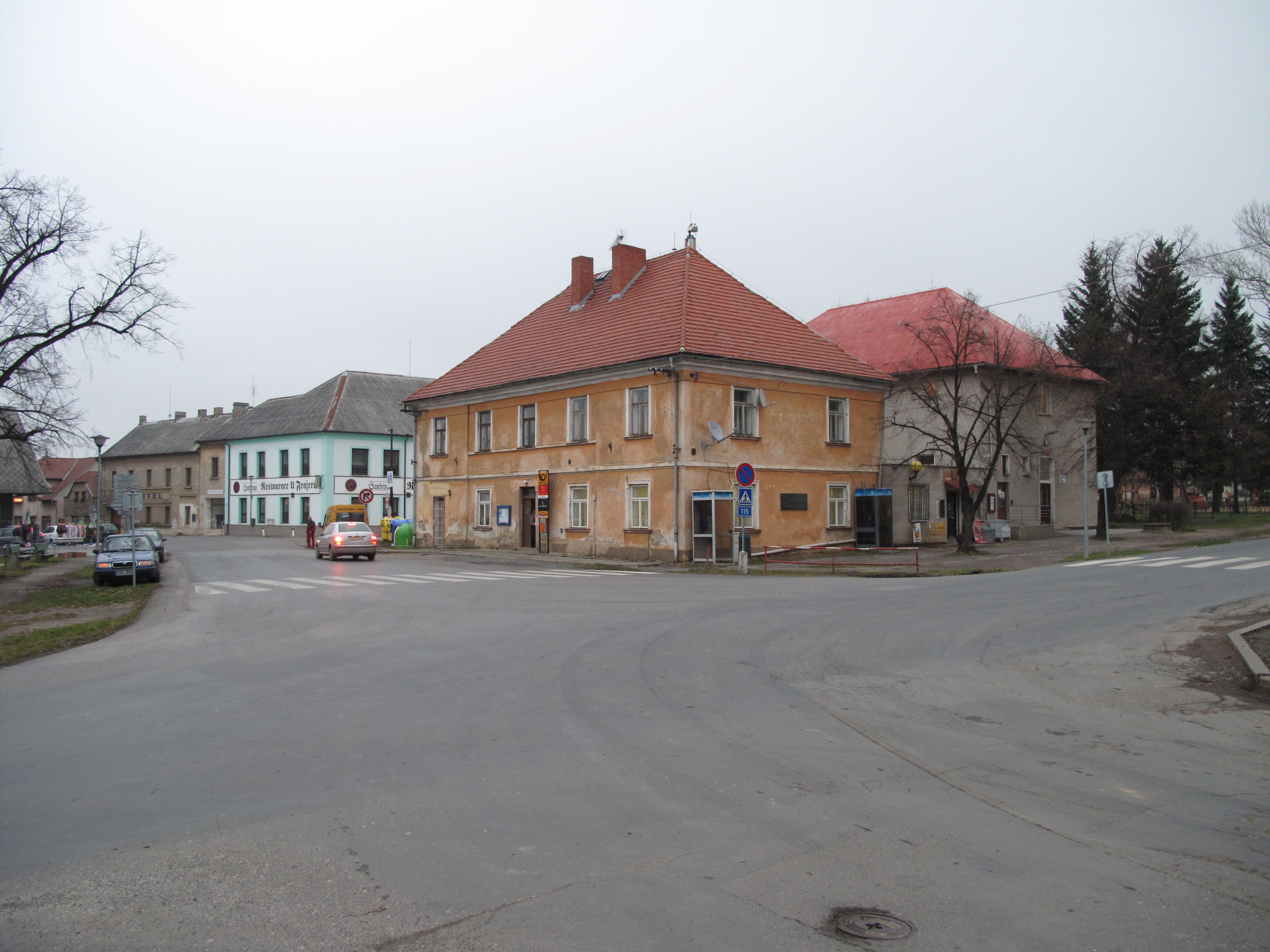 Post office at Hostomice village square, Beroun District, Czech Republic.